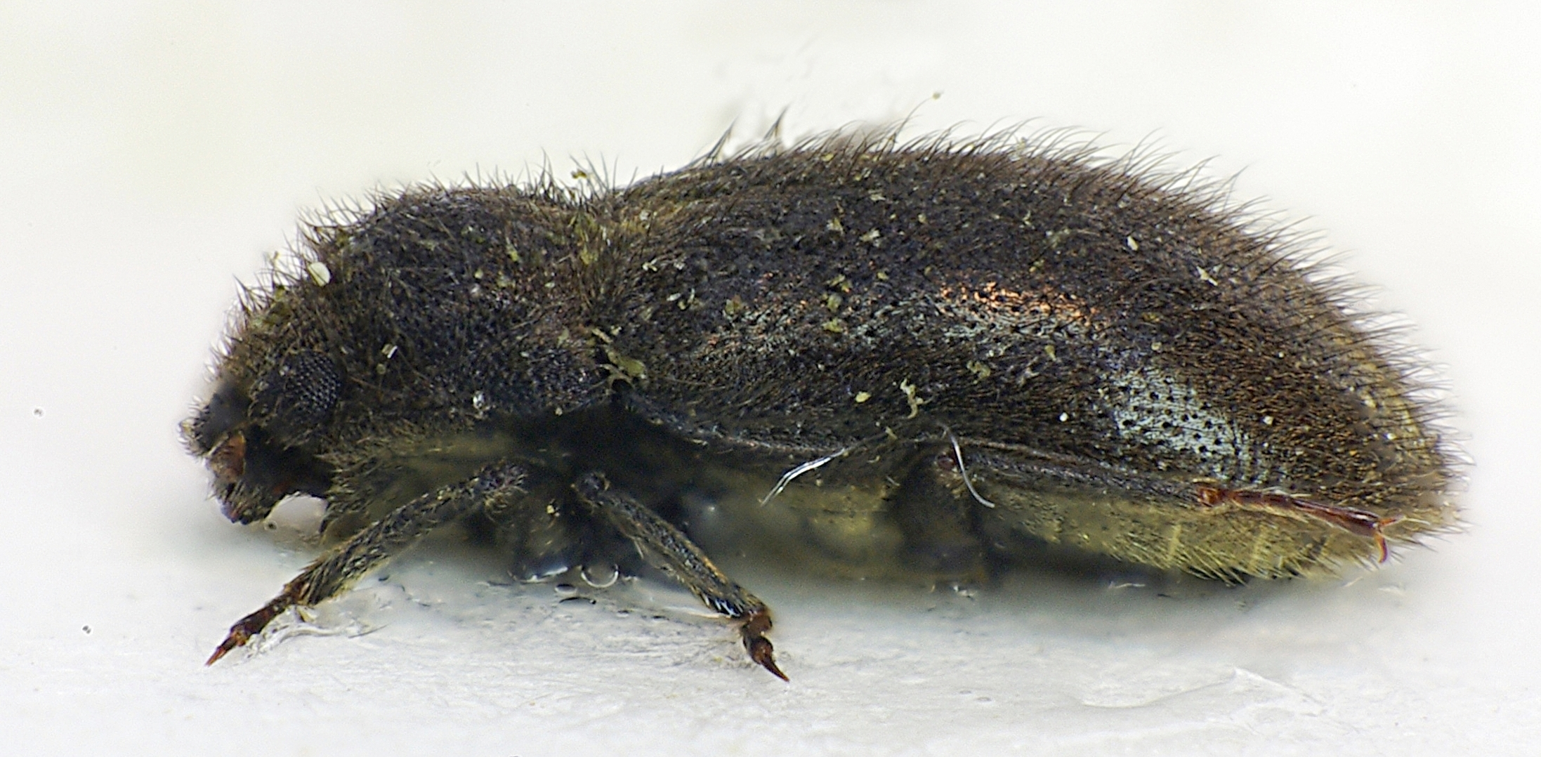 Side of Dryops ernesti